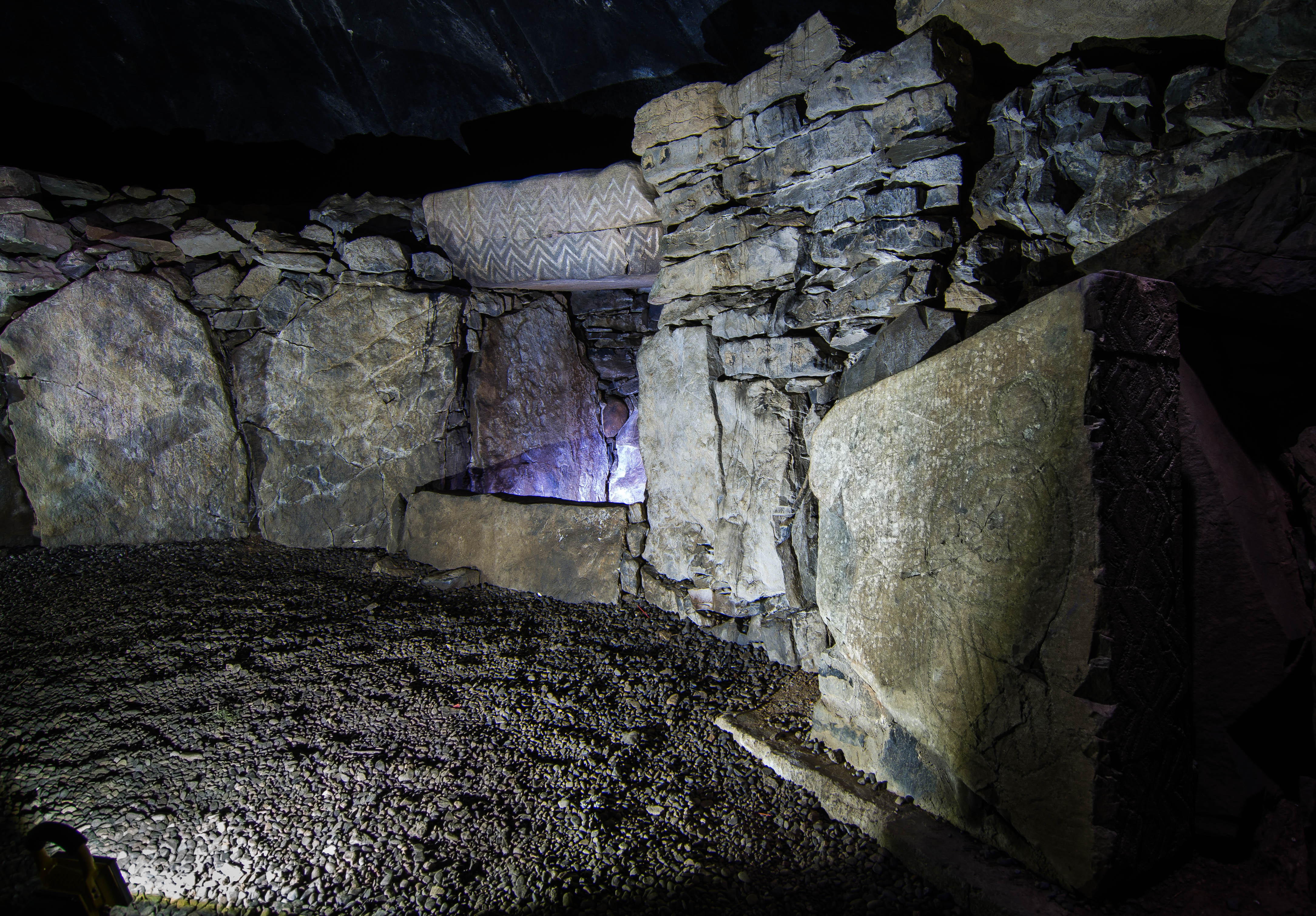 The lintel is carved with diamonds, and there's what look like cup marks in the left hand wall. At Loughcrew, these are more obvious, and were filled with chalk balls. The big stone to the right is carved with spirals and more diamonds.